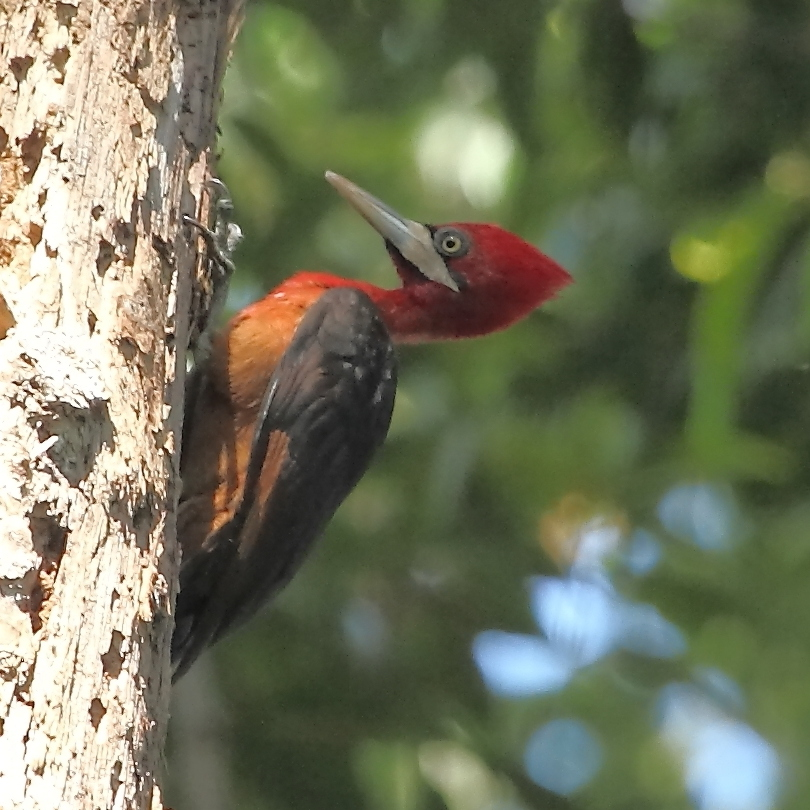 Red-necked Woodpecker (female) at RPPN Cristalino, Alta Floresta - MT - Brazil